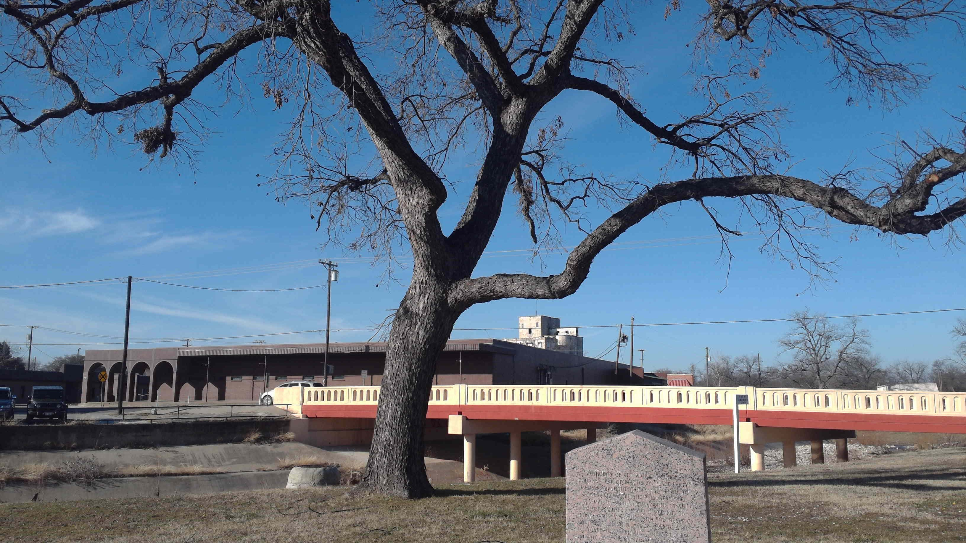 Great Hanging Memorial at Gainsville, Texas